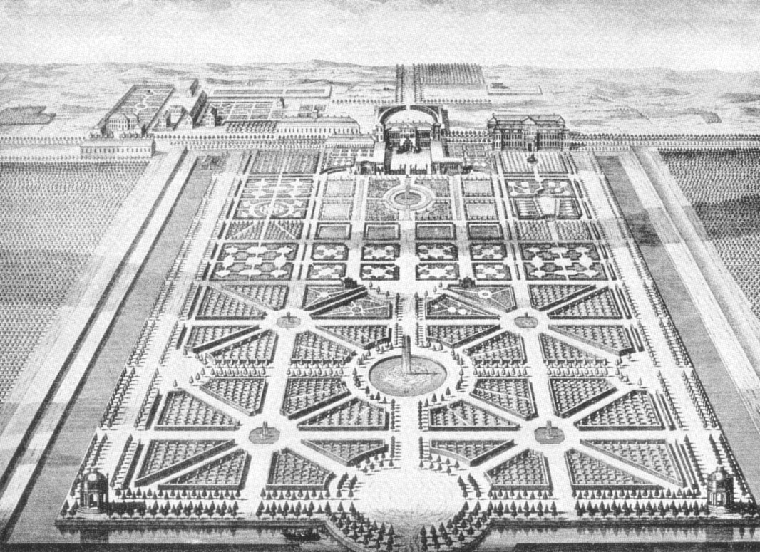 Herrenhausen Palace (centre top) and gardens in Hanover, copper engraving by van Sassen from the mid 1700's. The palace was destroyed in 1943 during the Second World War, the gardens and remaining buildings have been restored. There are plans since 2007 by the state government of Lower Saxony to reconstruct the palace.